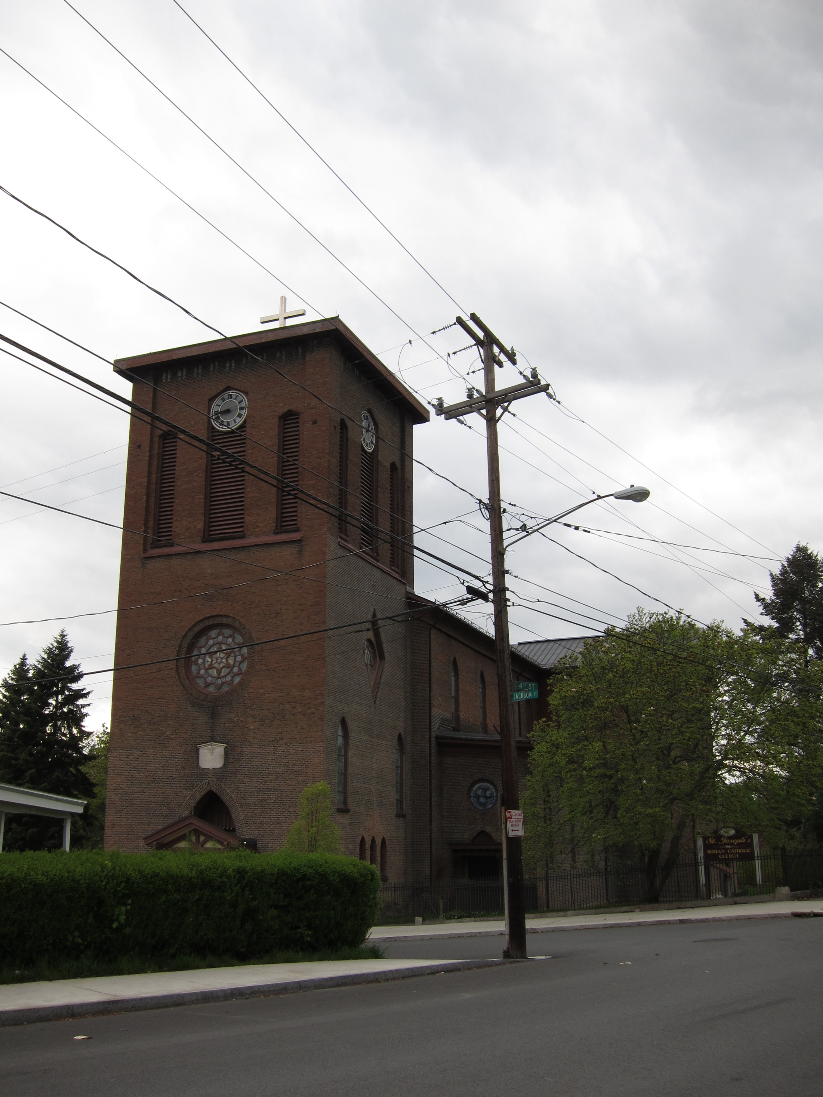 St. Joseph's Church (Troy, New York) - exterior, view near the corner of Jackson Street and 4th Street